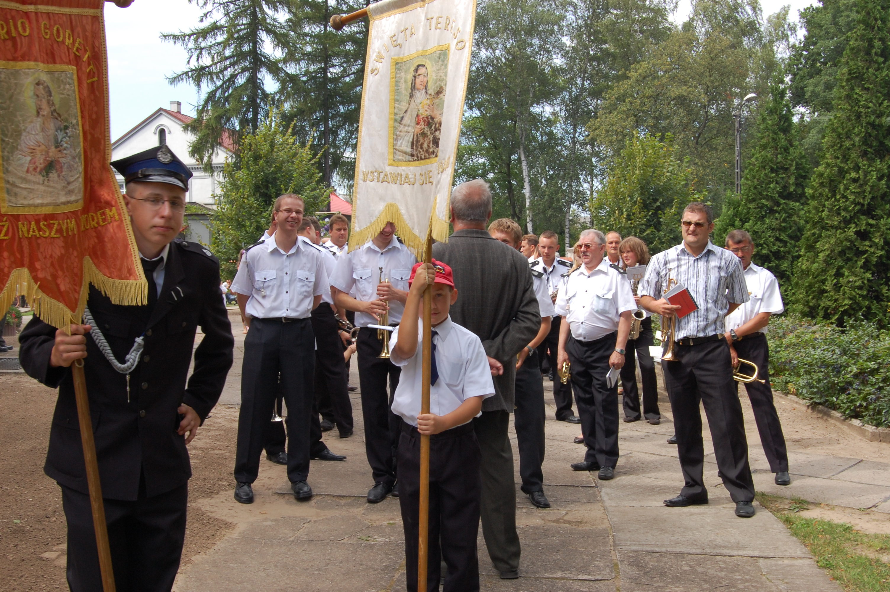 Celebrity of our parish holiday